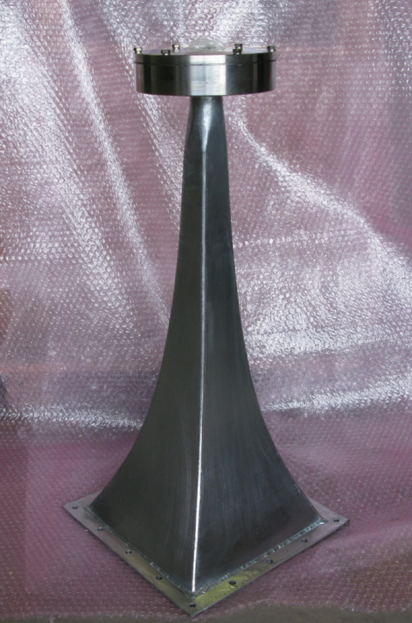 Picture of a stainless steel sonic soot blower.